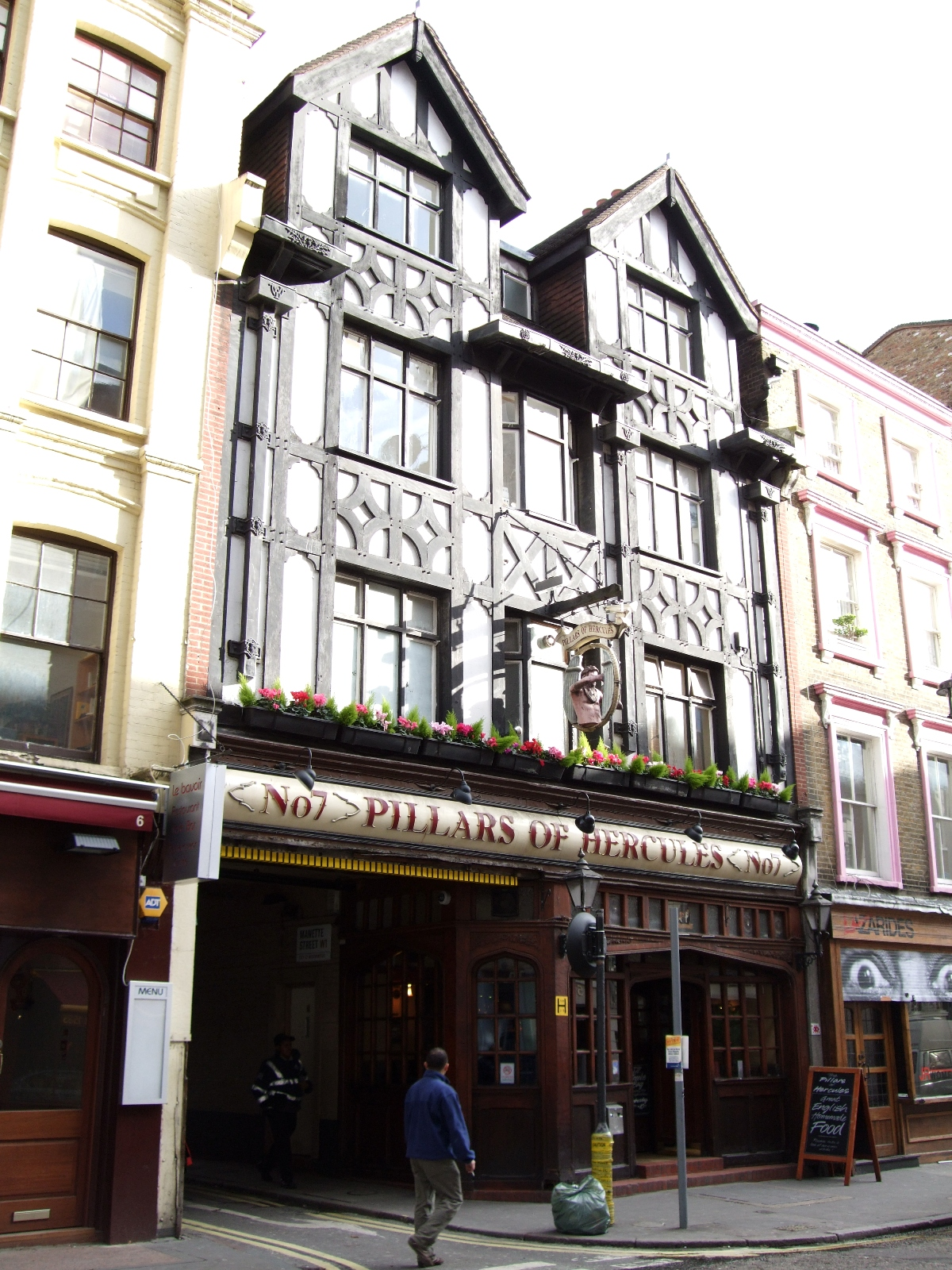 A nice place with good beers, but very small and gets busy. Address: 7 Greek Street. Owner: Faucet Inn Pub Co (website); T&J Bernard (former); Younger's (former). Links: Randomness Guide to London Fancyapint Beer in the Evening